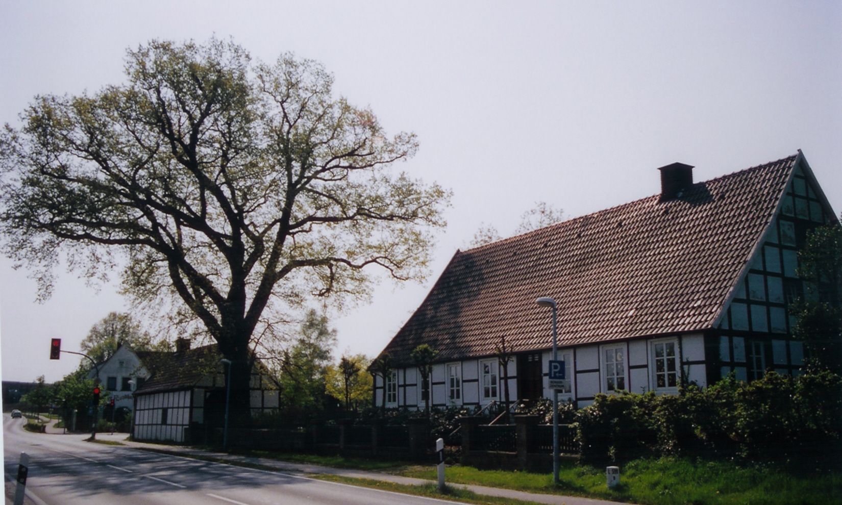 Georgshof in Mettingen, Kreis Steinfurt, North Rhine-Westphalia, Germany.